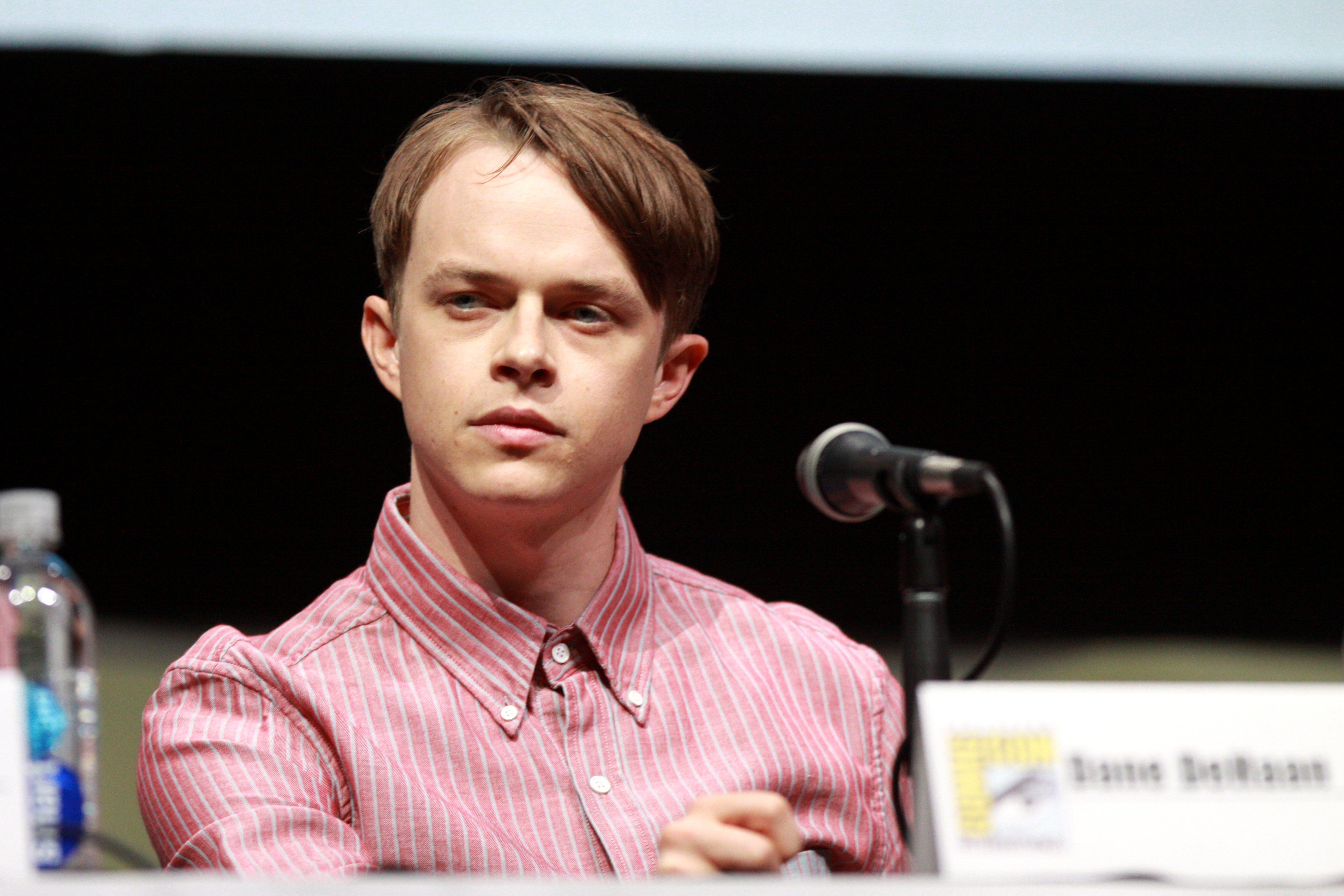 Dane DeHaan speaking at the 2013 San Diego Comic-Con International, for Metallica: Through the Never (2013), at the San Diego Convention Center in San Diego, California.